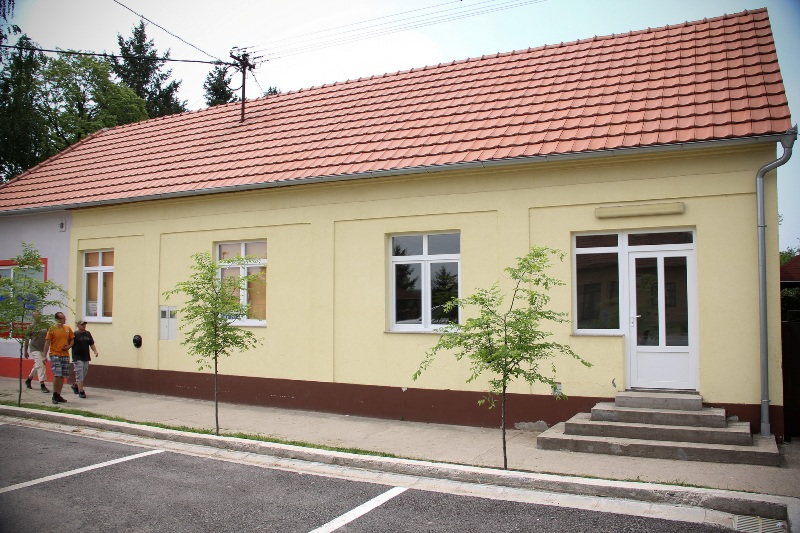 Mjesni odbor